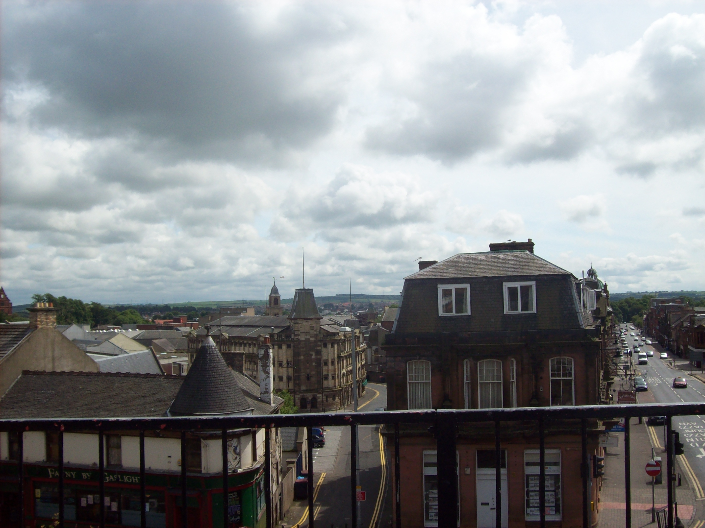 English